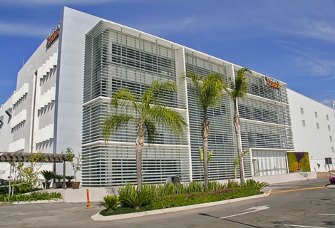 Campus